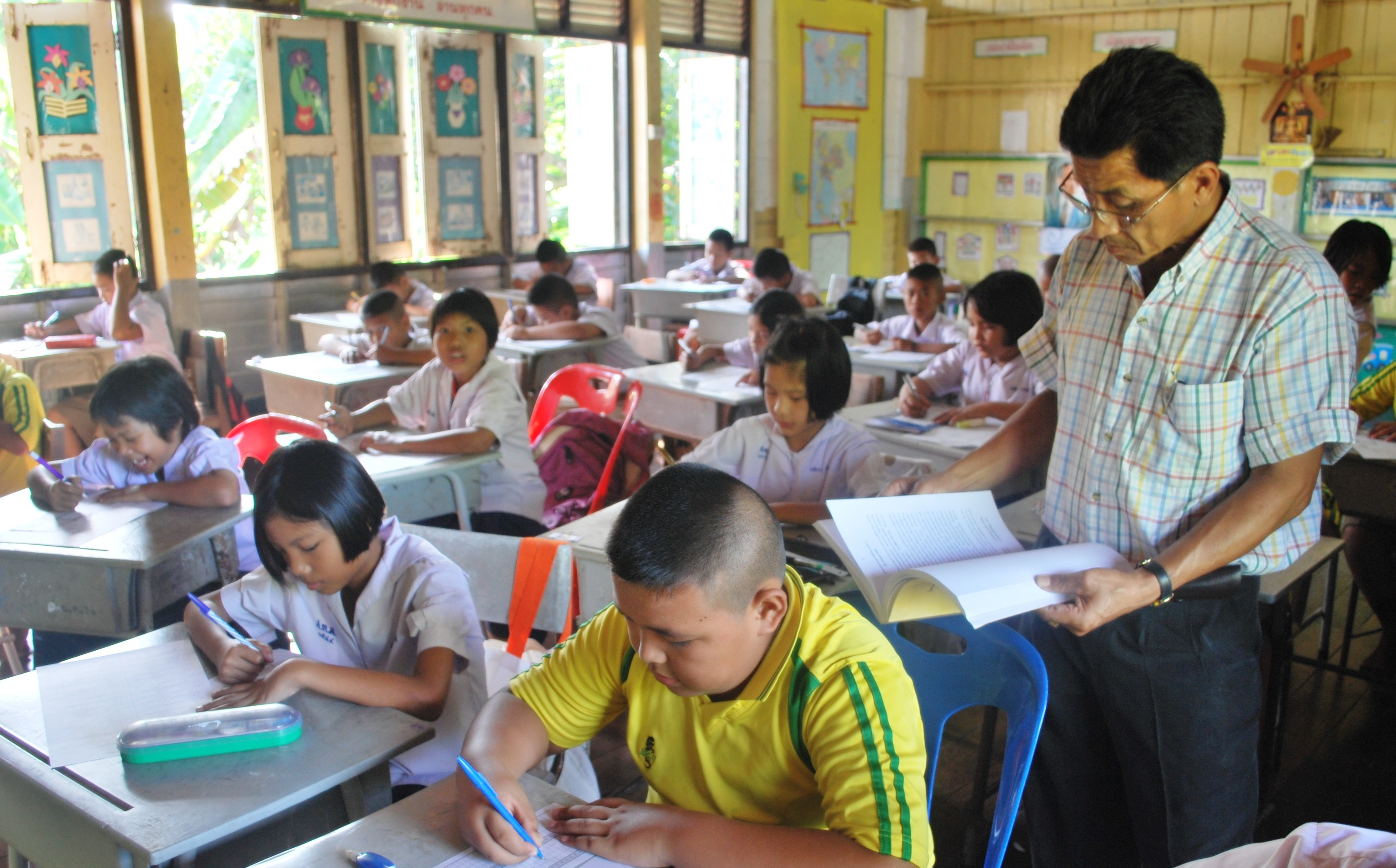 student in Pa Khanun Charoen Witthaya School in Ban Pa Kanun, Khung Taphao subdistrict, Mueang Uttaradit, Uttaradit Province, Thailand.